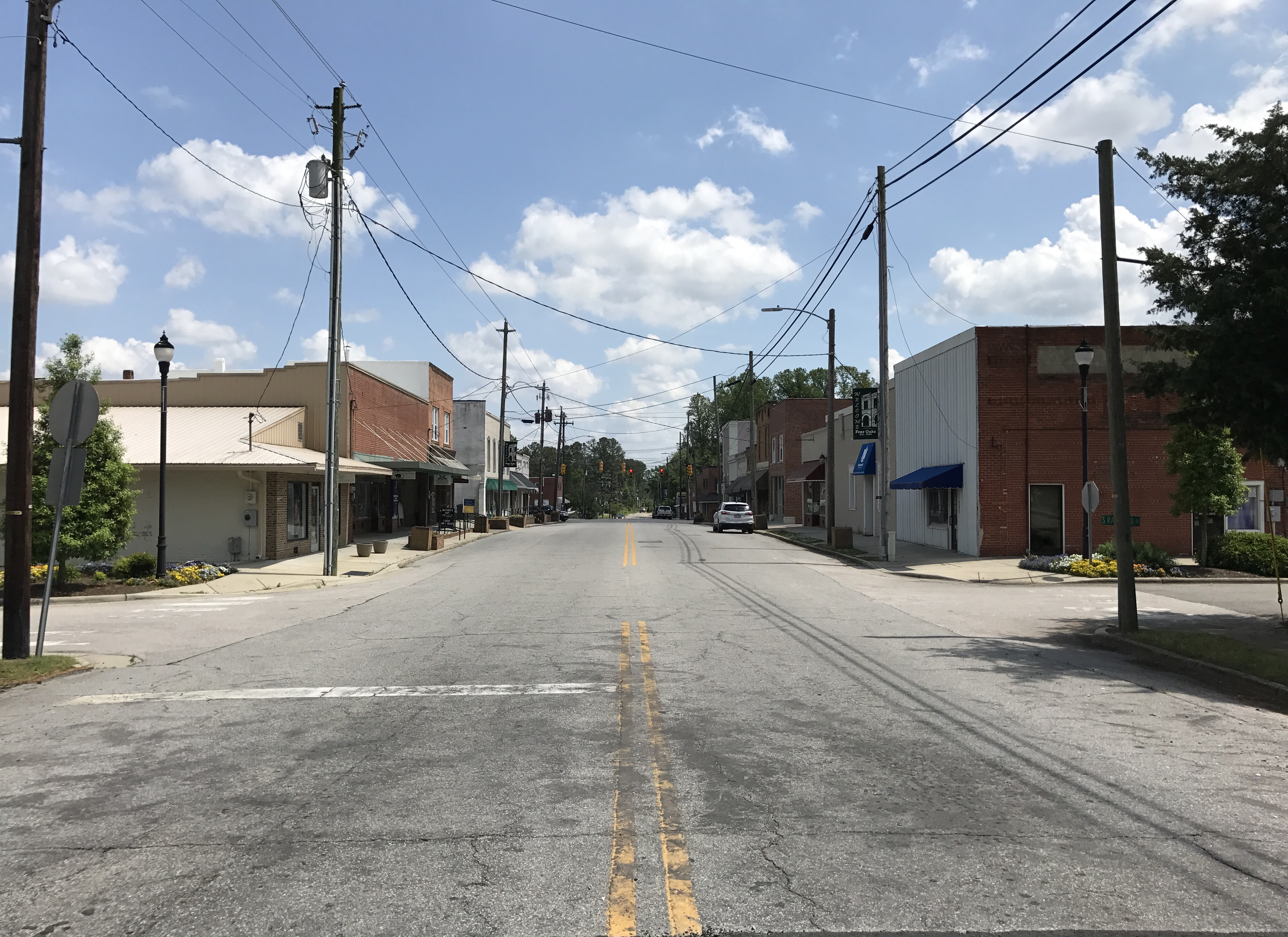 Downtown Four Oaks